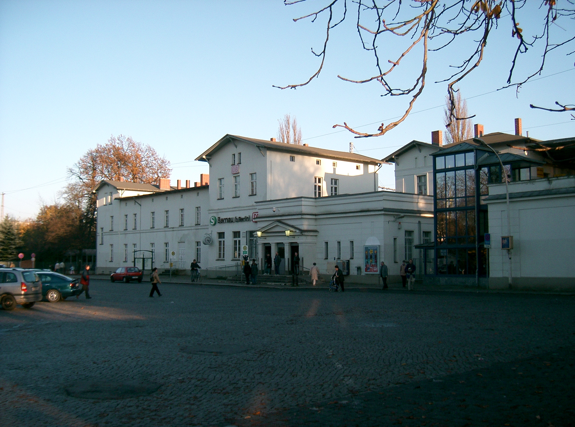 Railway station of the german city Bernau bei Berlin.